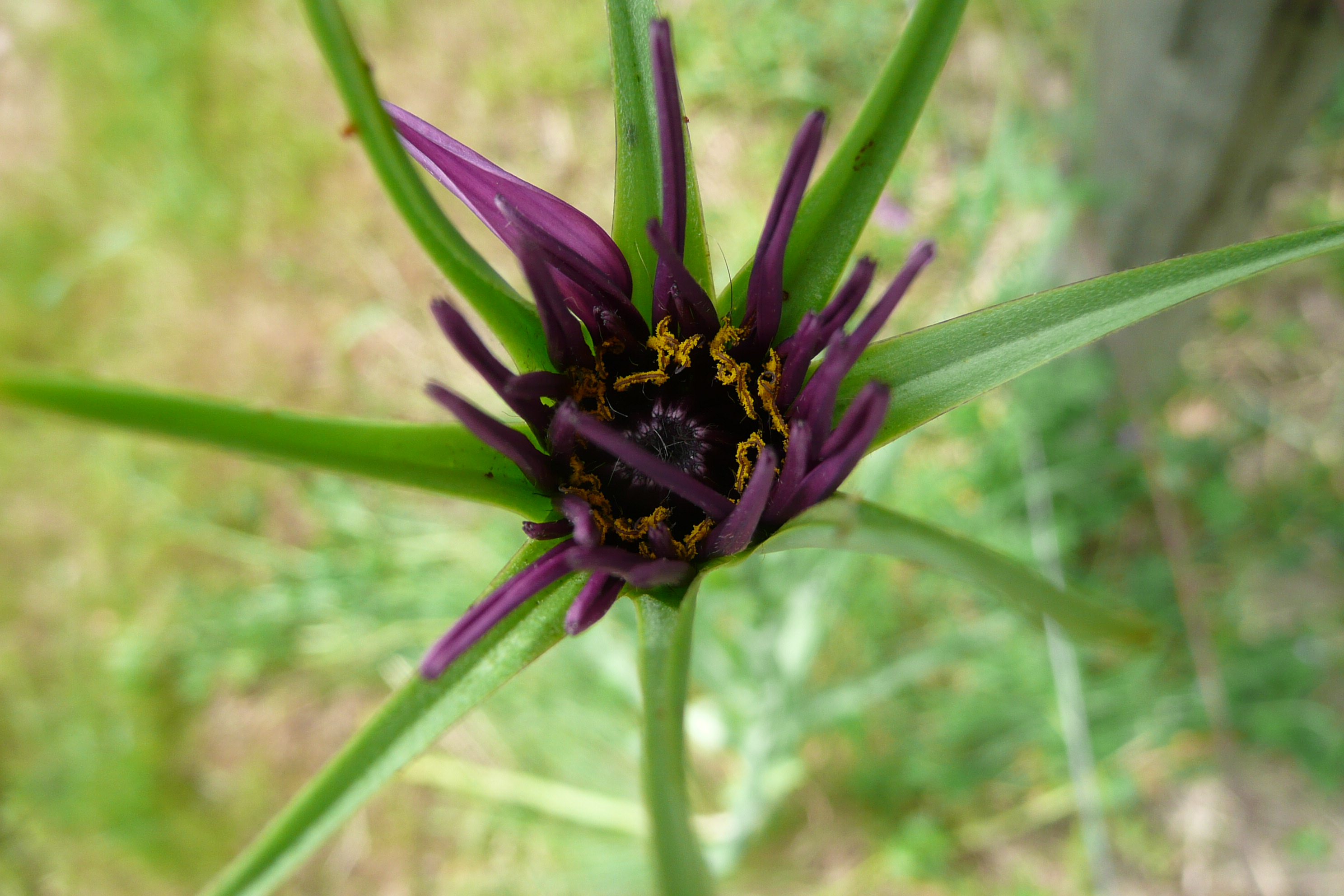 Tragopogon porrifolius